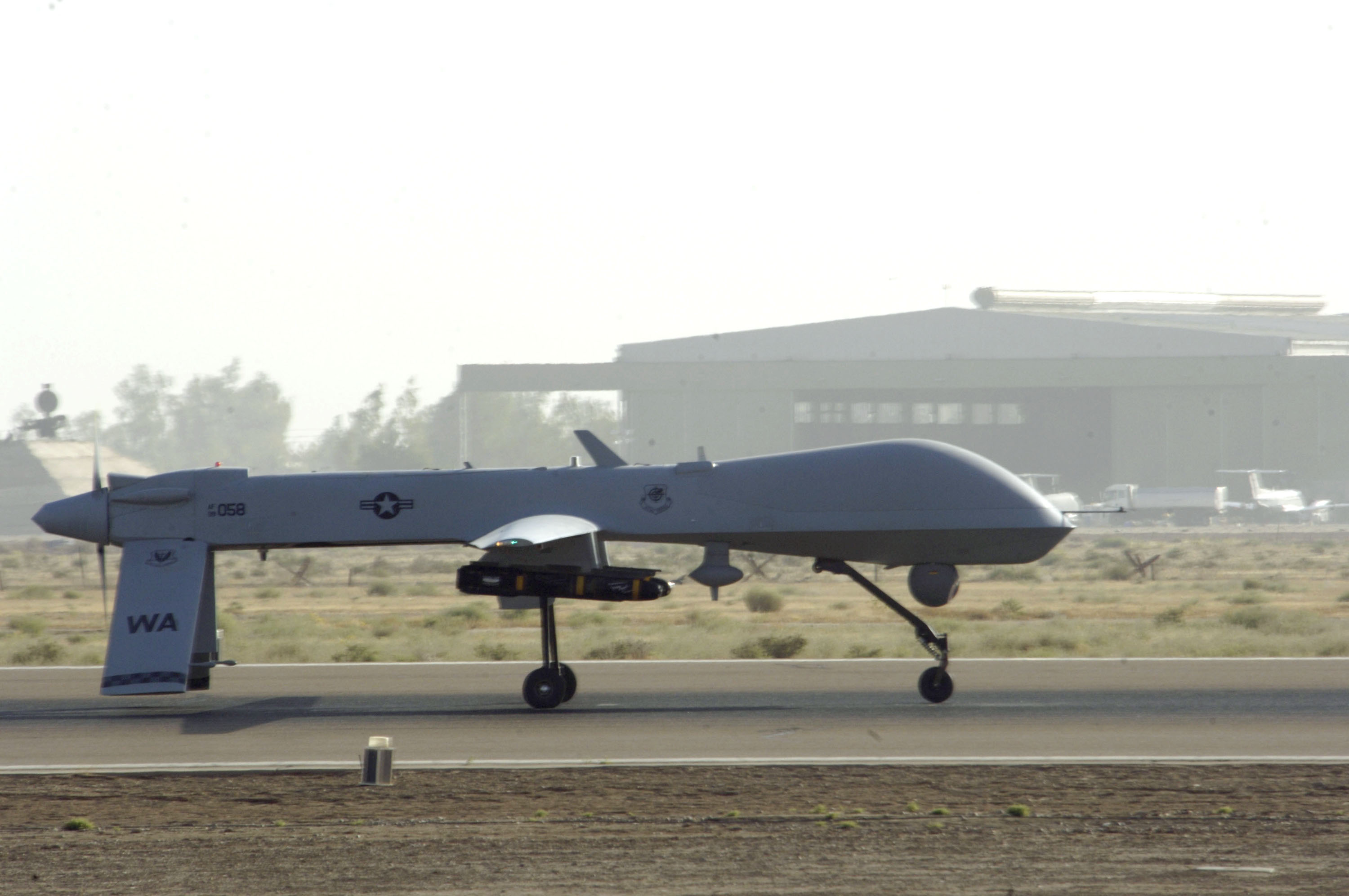 An MQ-1 Predator unmanned aerial vehicle taxis down the runway at Balad Air Base, Iraq, on Wednesday, June 14, 2006. The Predator can employ two laser-guided Hellfire anti-tank missiles. (United States Air Force photo)